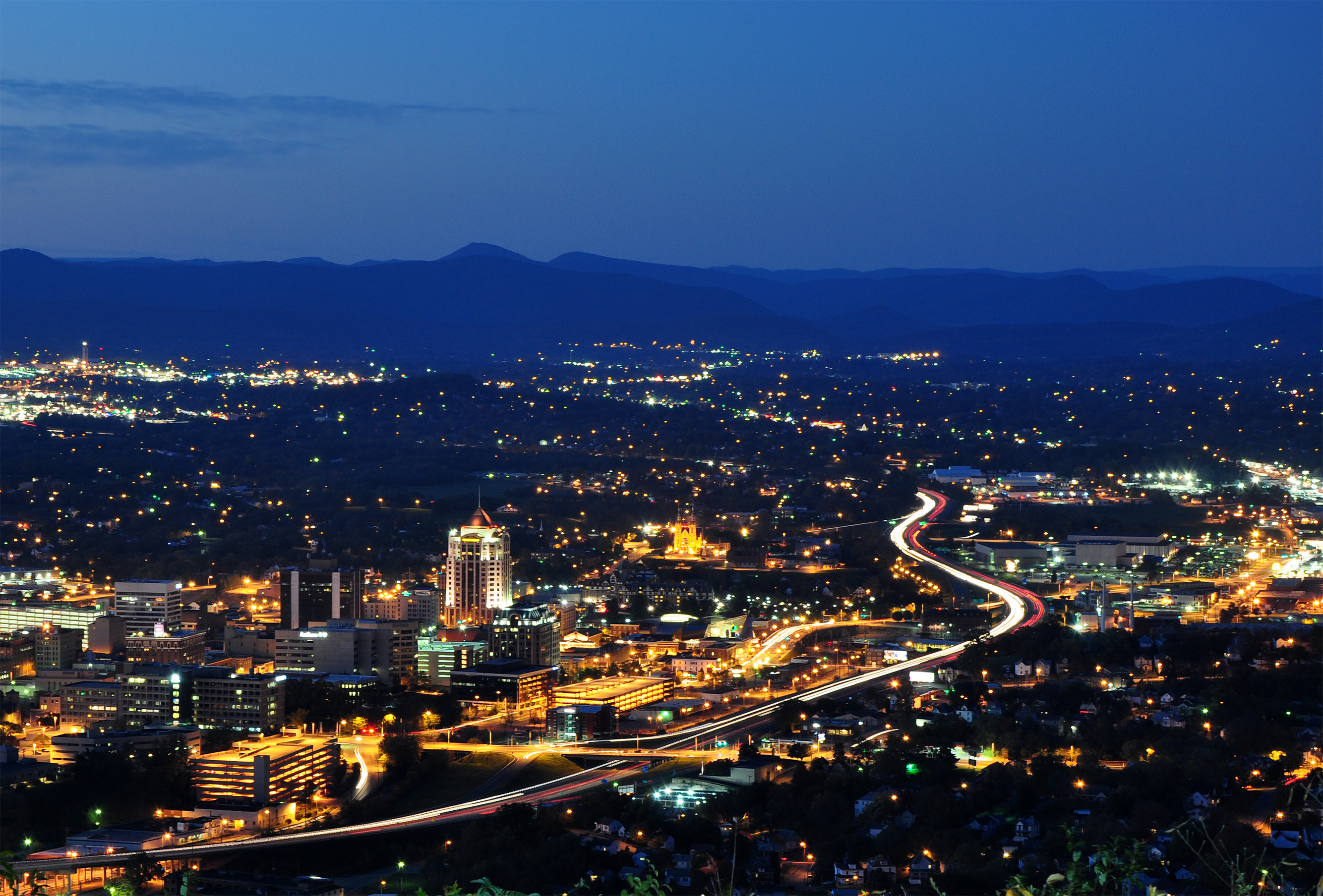 Roanoke City as seen from Mill Mountain Star at dusk in Virginia, USA.